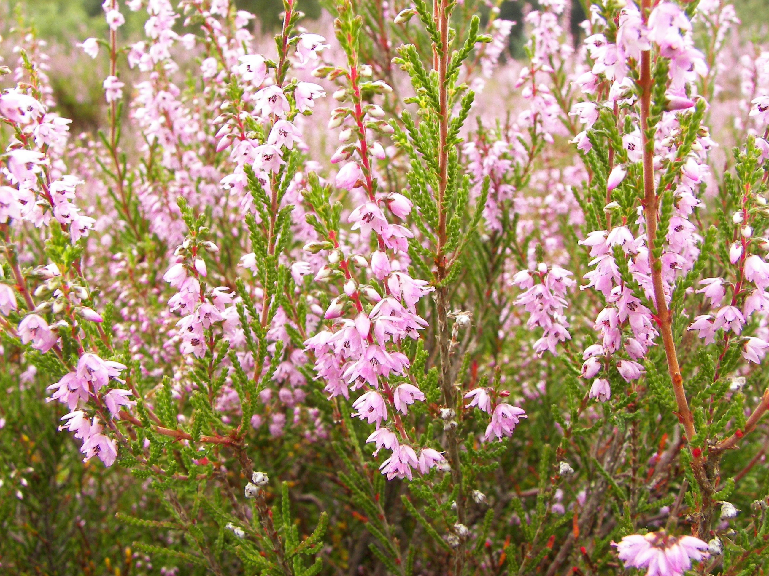 Heather (Calluna vulgaris) near Schneverdingen, Lower Saxony, Germany